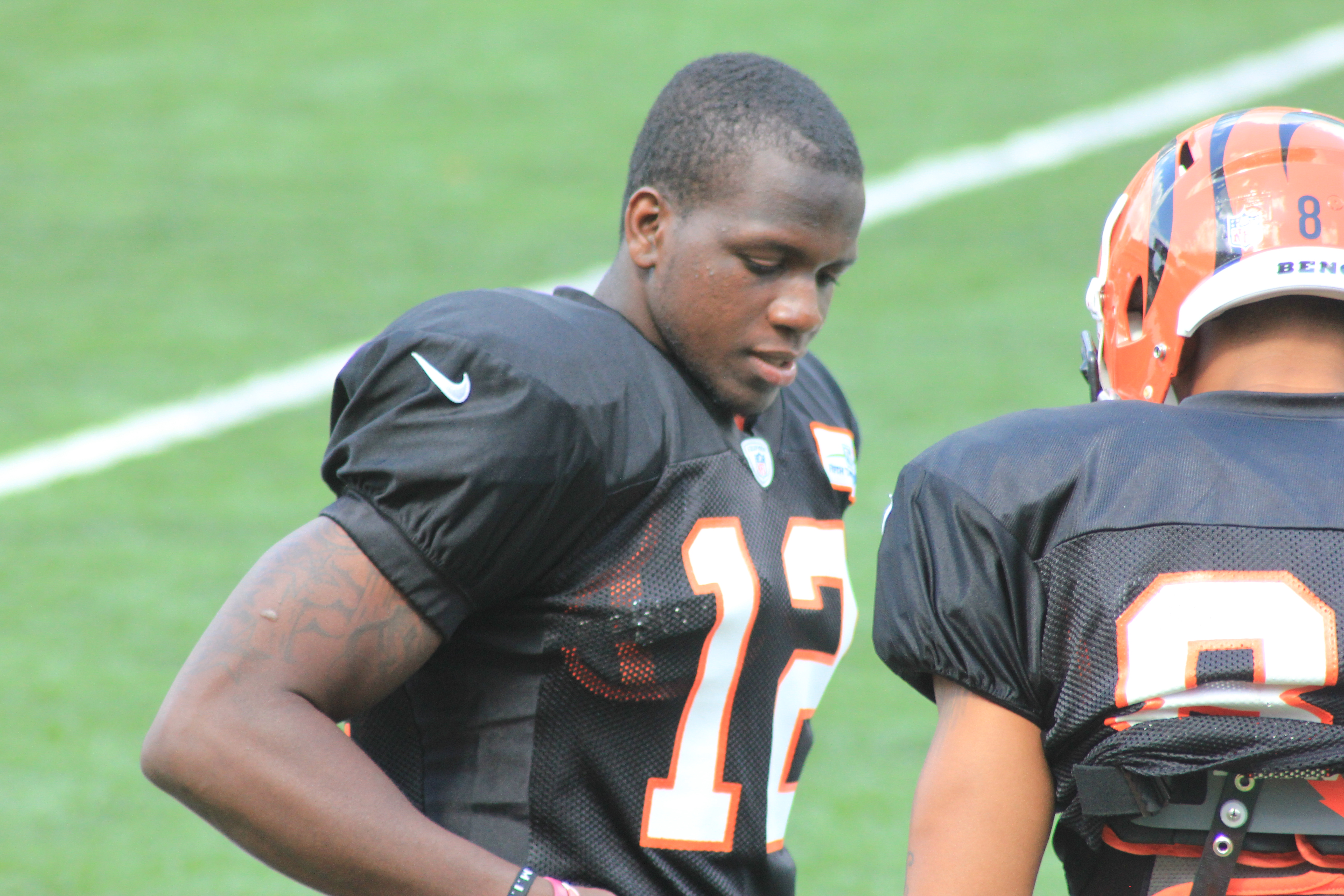 Mohamed Sanu, wide receiver for the CIncinnati Bengals.